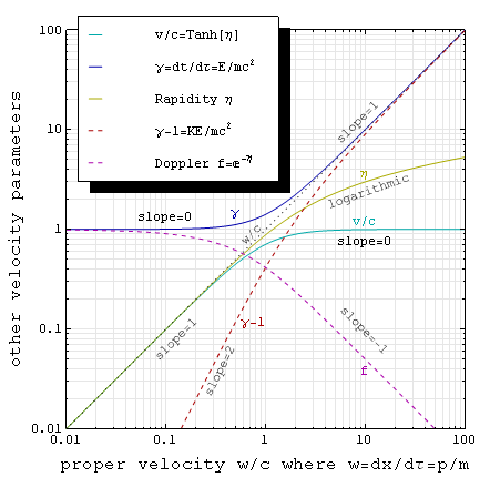 Log-Log Plot of velocity parameters: coordinate (v/c), Lorentz factor (γ), rapidity (η) and K/mc^2 (γ-1) versus proper (w/c) velocity or p/m where c is lightspeed, m is mass, p is momentum, and K is kinetic energy. Note how v/c tracks w/c at low speeds, while γ does this at high speeds. If the elbowed curve (γ-1) is plotted against parameters multiplied by a range of masses, one obtains a family of kinetic energy versus momentum dispersion curves that makes contact with much of modern and everyday physics.